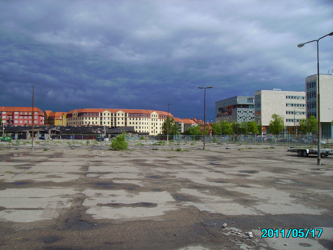 The lot Njalsgade 101, Amager, Copenhagen, Denmark, also called the 'Mosque Lot' as a building complex with a mosque has been planned. Seen towards the east. In the background from left are seen Amagerfælledvej 41-47, a corner of Amagerfælled school, the Bikuben Hall of Residence and buildings 27 and 22 of KUA, the Amager campus of the University of Copenhagen.